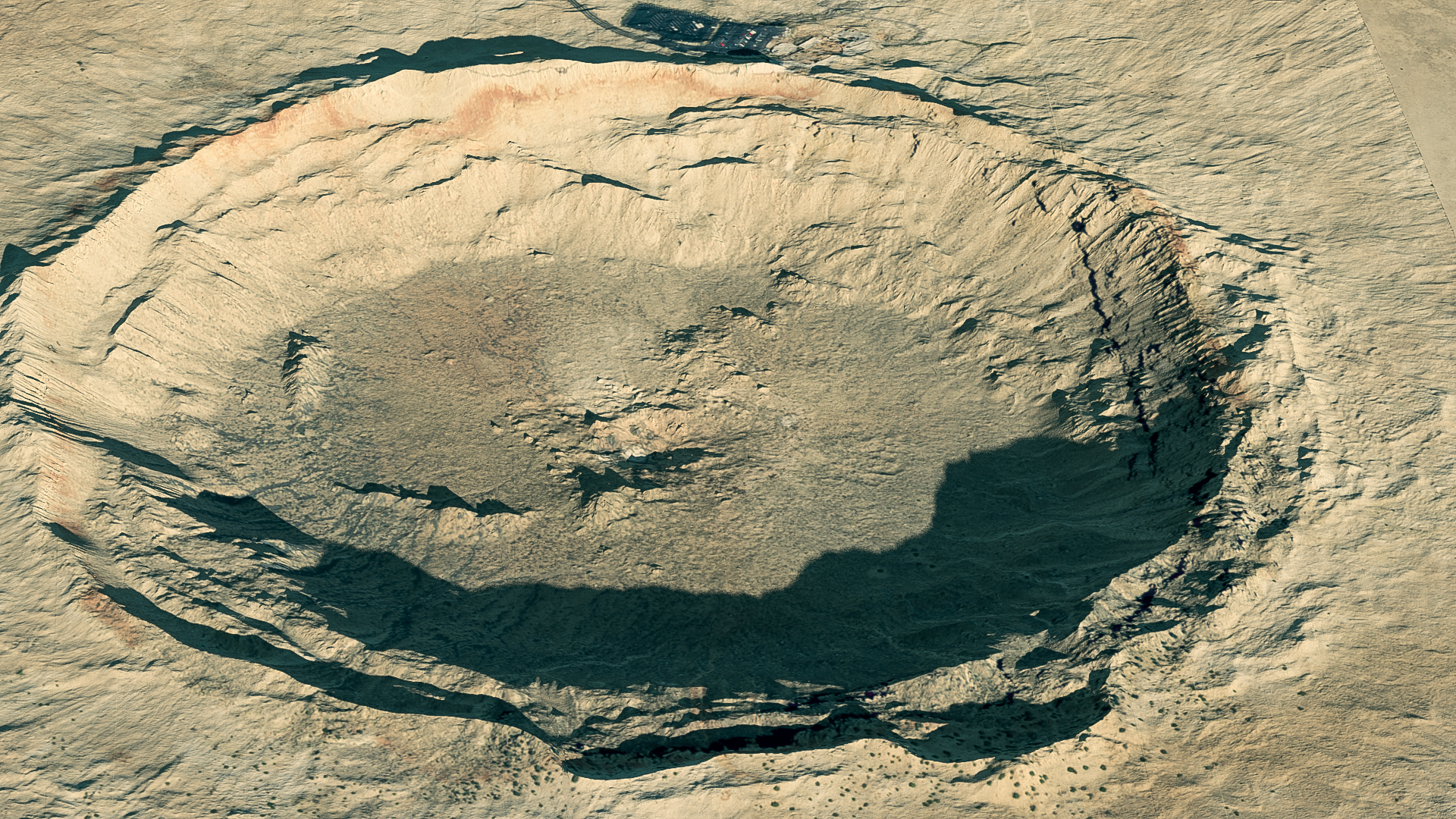 NOT REAL! Created using a HiRISE Digital Terrain Model of Domoni Crater on Mars with USGS 1-meter orthoimagery of Meteor Crater in Arizona. Scale isn't exact (or even that close). Domoni Crater DTM: NASA/JPL/University of Arizona/USGS Meteor Crater: USDA/FSA/APFO